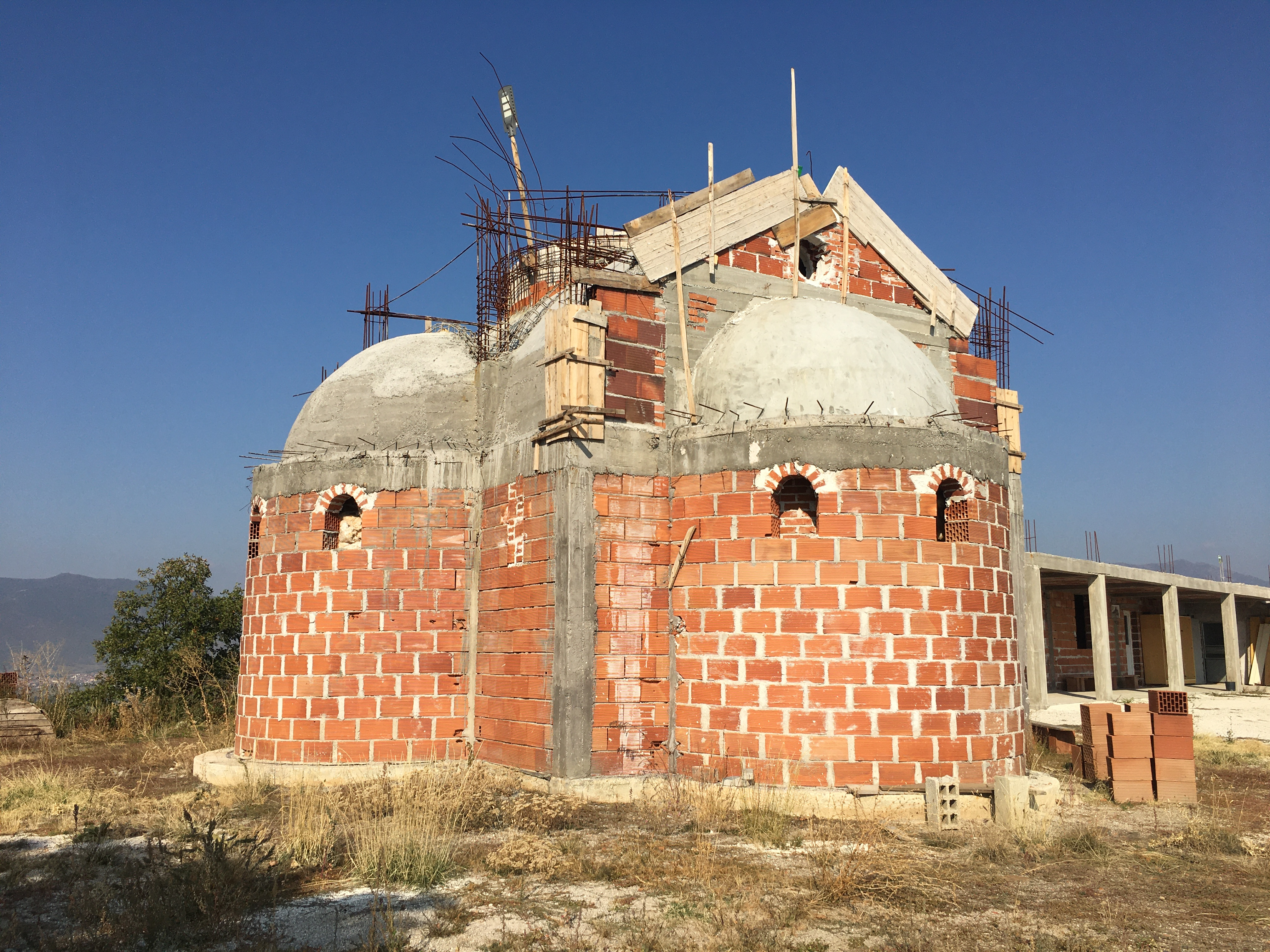 St. Athanasius Church of the Ropotovo Monastery under construction